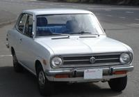 Photo by David S. Gonzales, 2005